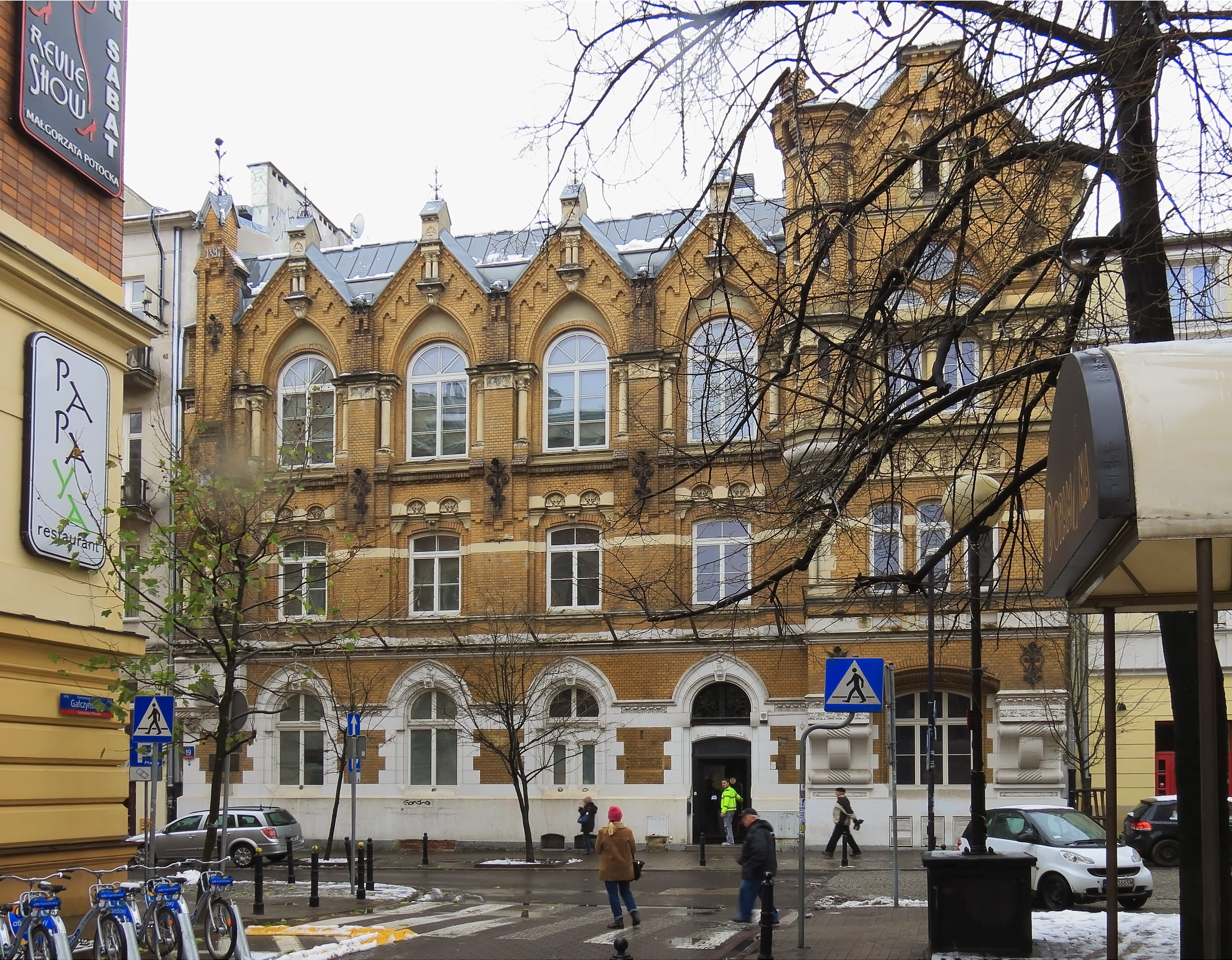 19 Foksal street in Warsaw